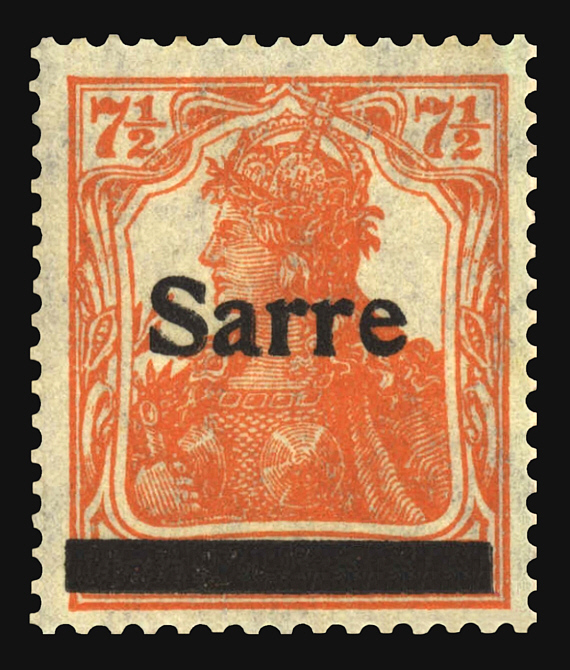 stamp series Germania with overprints “Sarre” Ausgabepreis: 7 1/2 Pfennig First Day of Issue / Erstausgabetag: 29. Januar 1920 Michel-Katalog-Nr: 5 (Saargebiet)